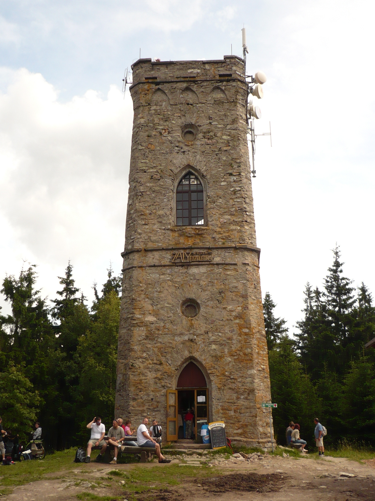 Zaly Observation Tower, near Vrchlabi, Czech Republic